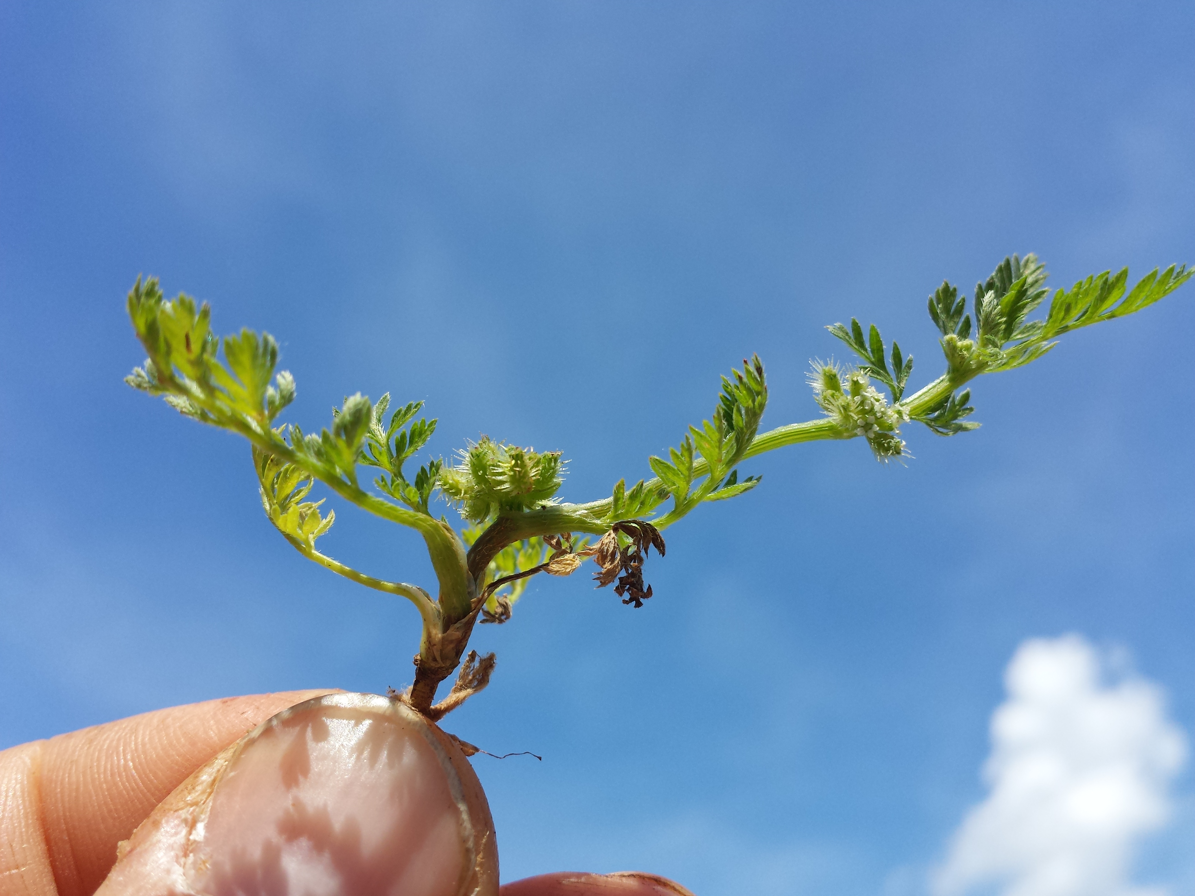 Habitus Taxonym: Torilis nodosa ss Rottensteiner: Exkursionsflora für Istrien ISBN 978-3-85328-067-6 Location: Vantačići, Krk, County Primorje-Gorski kotar, Croatia Habitat: ruderal wayside nearby seaside